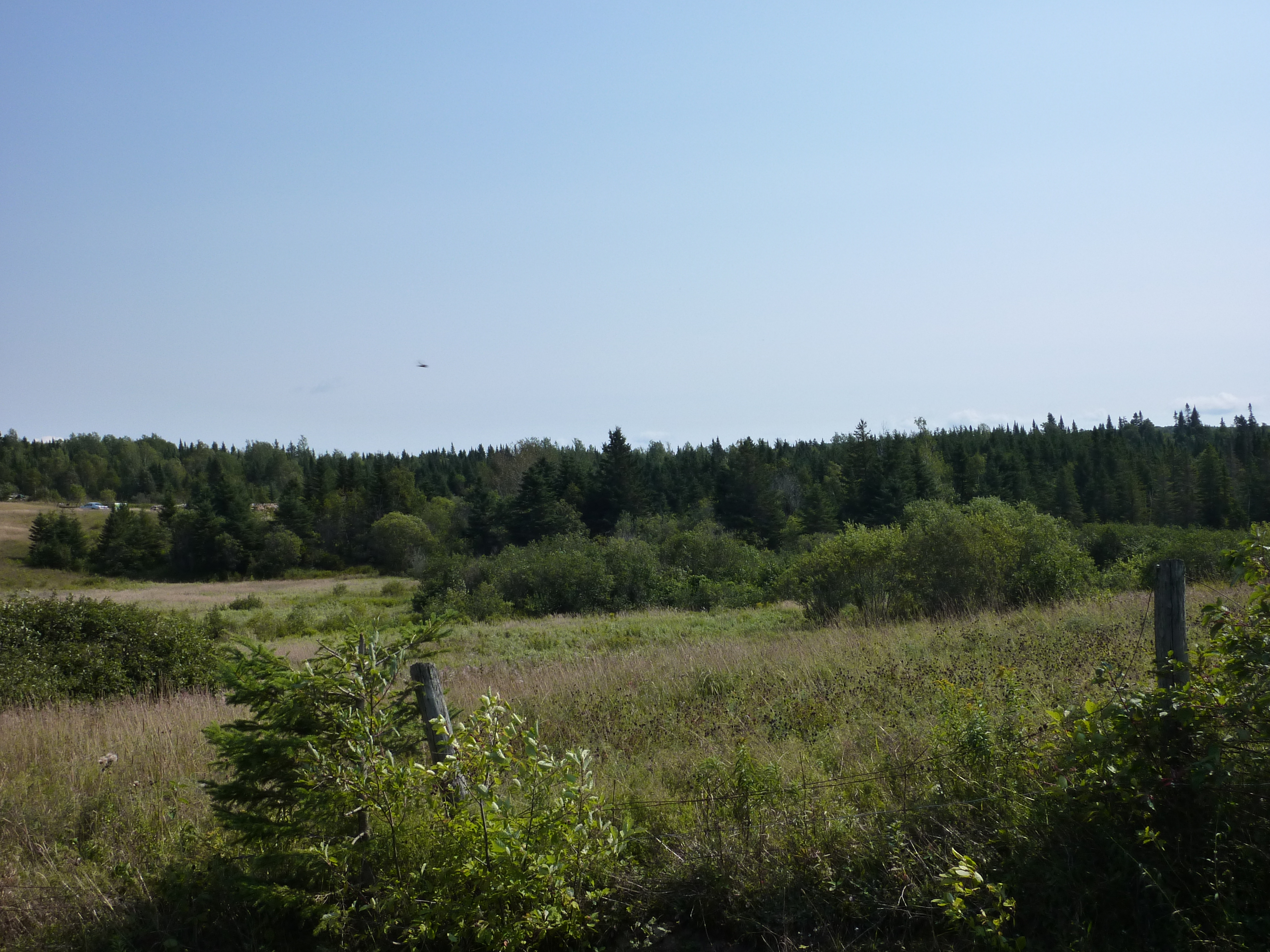 Sainte-Paule, Qc